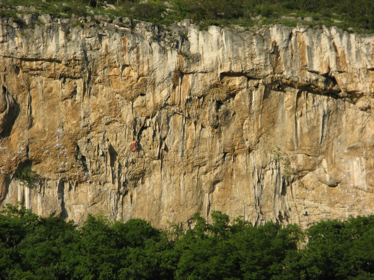 Osp